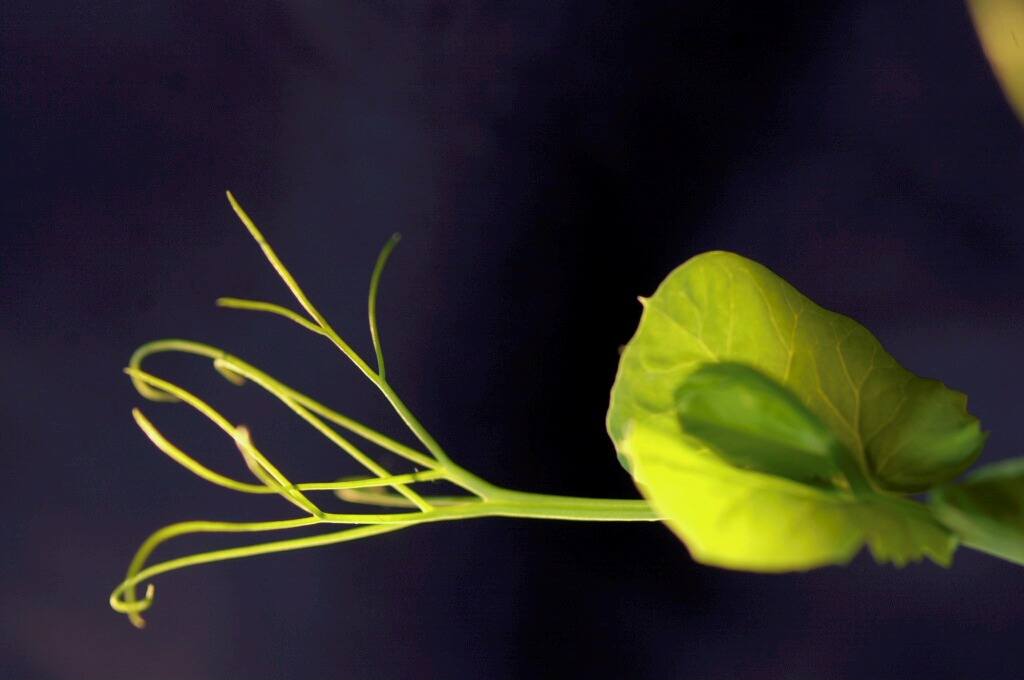 A close up view of sprouts on the Russian BIO-5 Rasteniya-2/Lada-2 (Plants-2) plant growth experiment, which is located in the Zvezda Service Module on the International Space Station (ISS).